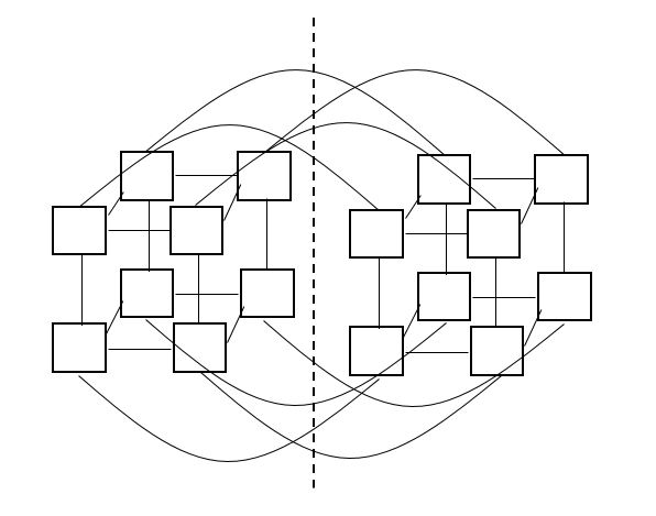 Bisected hypercube